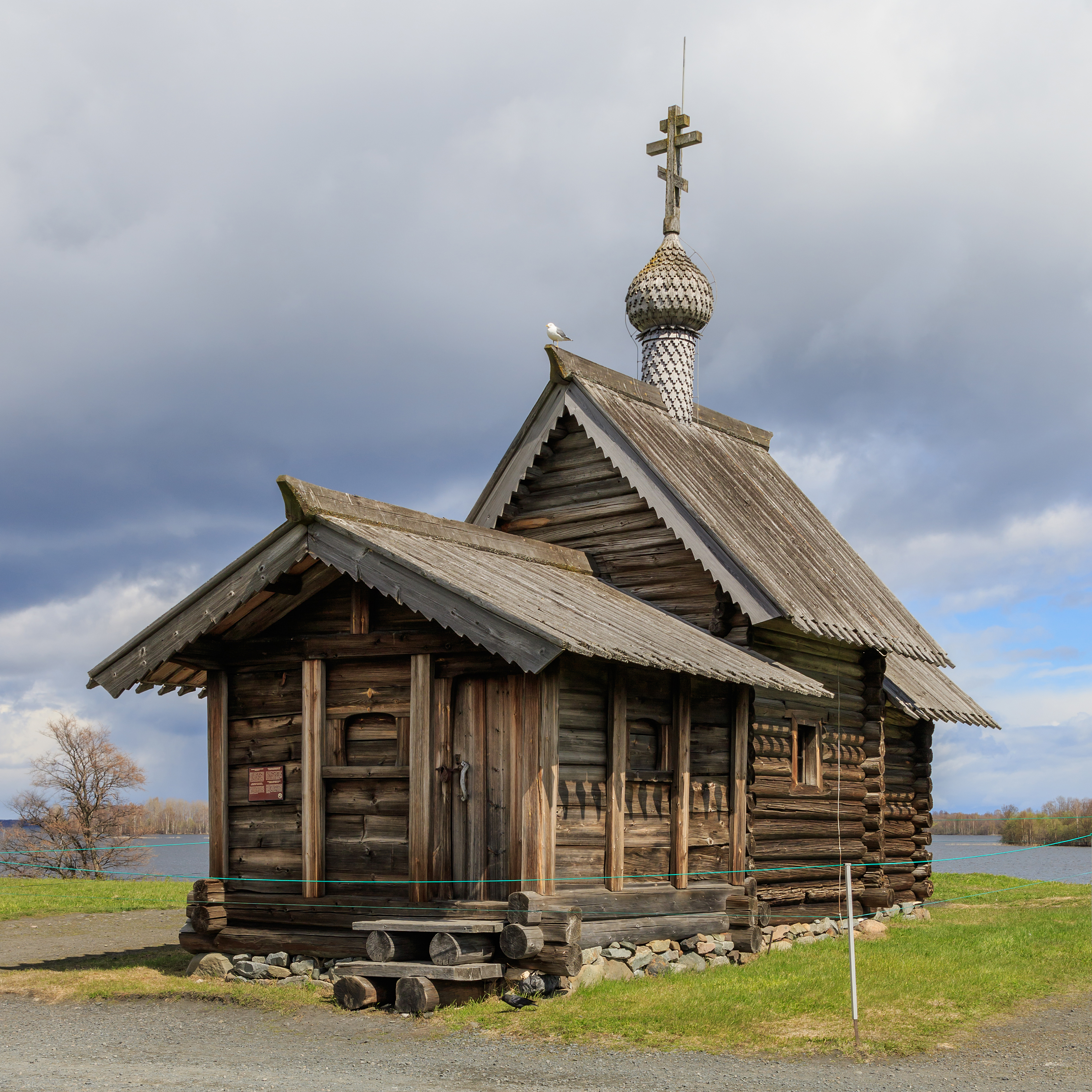 Church of Saint Lazarus' Resurrection on Kizhi Island, Republic of Karelia (Russia).